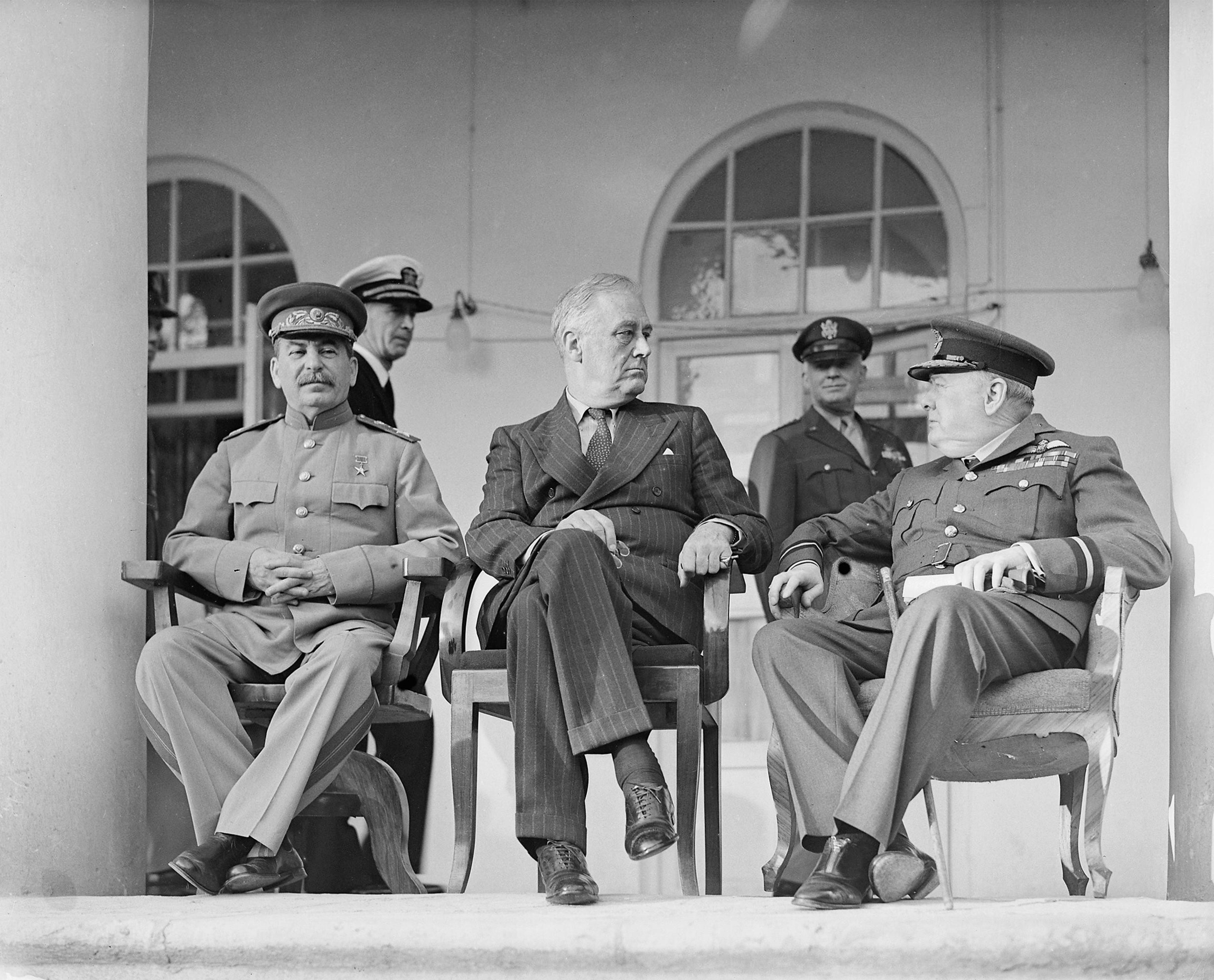 Joseph Stalin, Franklin D. Roosevelt and Winston Churchill on the veranda of the Soviet Legation in Teheran, during the first “Big Three” Conference, November 1943. In the background are aides to the US President.